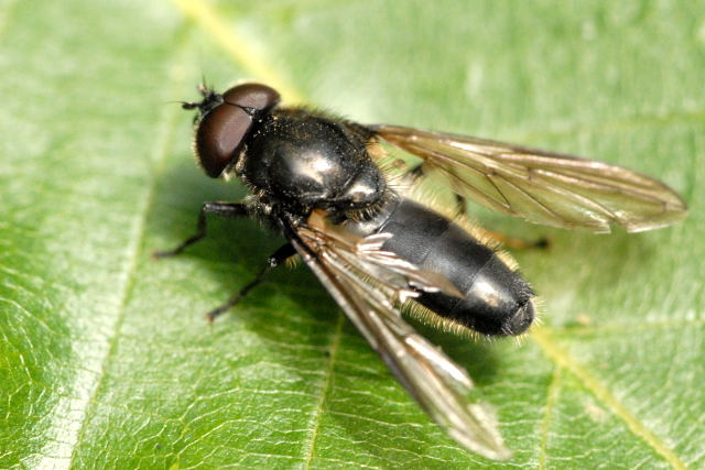 Cheilosia variabilis from Commanster, Belgian High Ardennes .